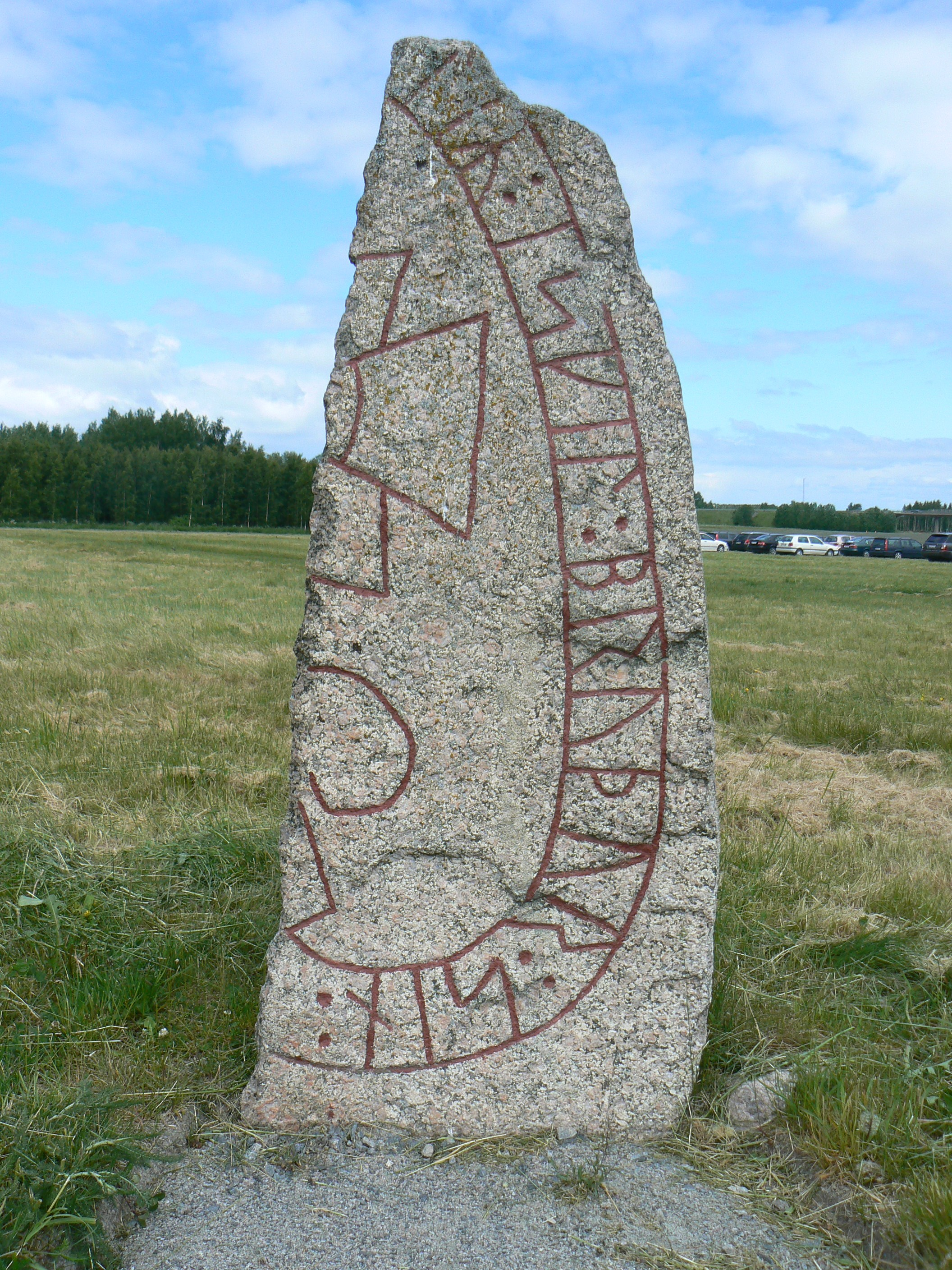 Östergötlands runinskrifter 62 ("Runic inscriptions of Östergötland 62"), runestone at Skänninge, Östergötland. This stone previously had another location.